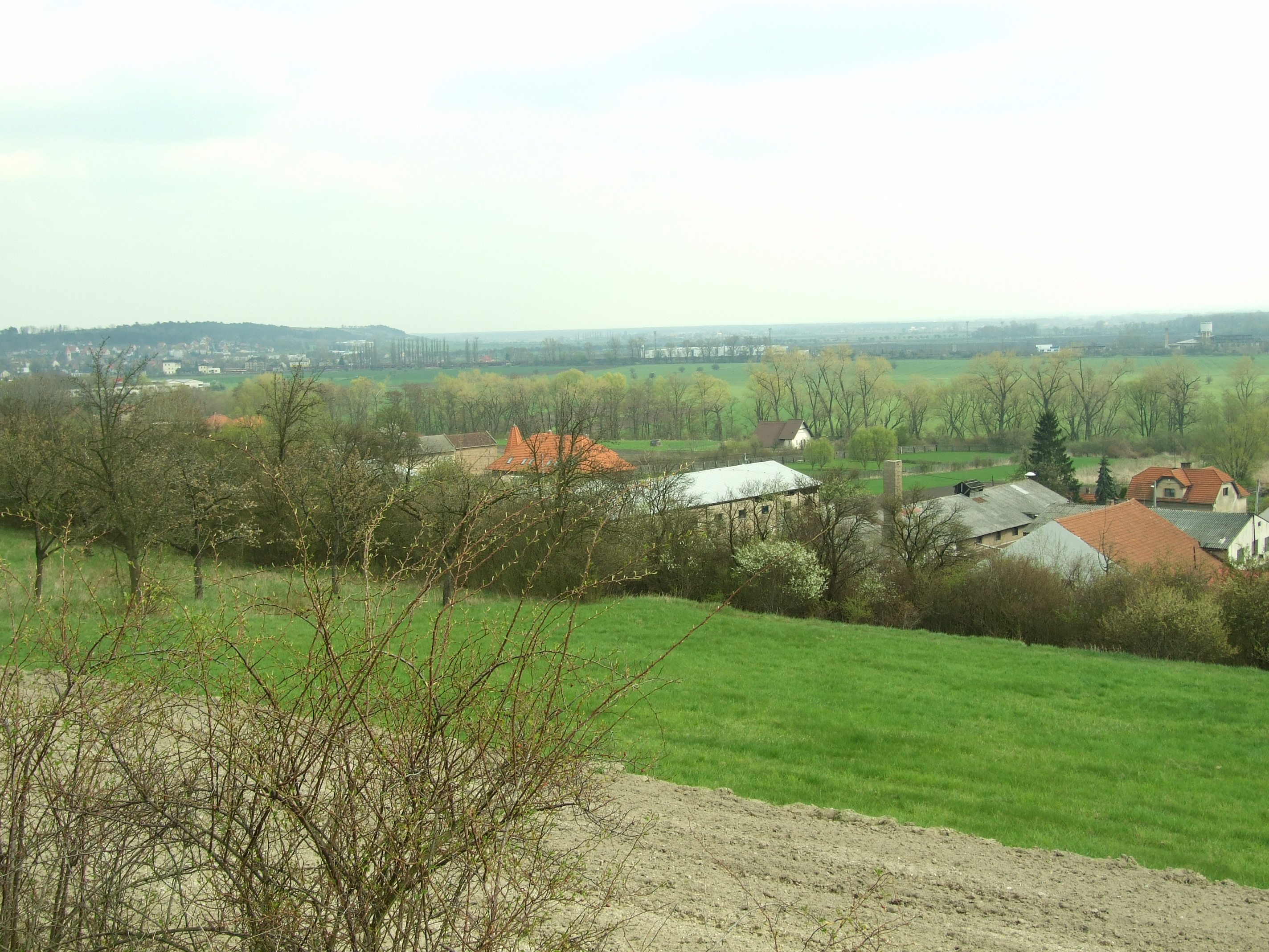 Přívory village (part of Všetaty) seen from north, Mělník District, Central Bohemian Region, CZ